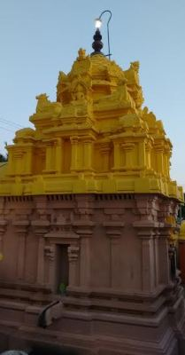 Thanjavur naganagesvarartemple தஞ்சாவூர் நாகநாகேசுவரர் கோயில்